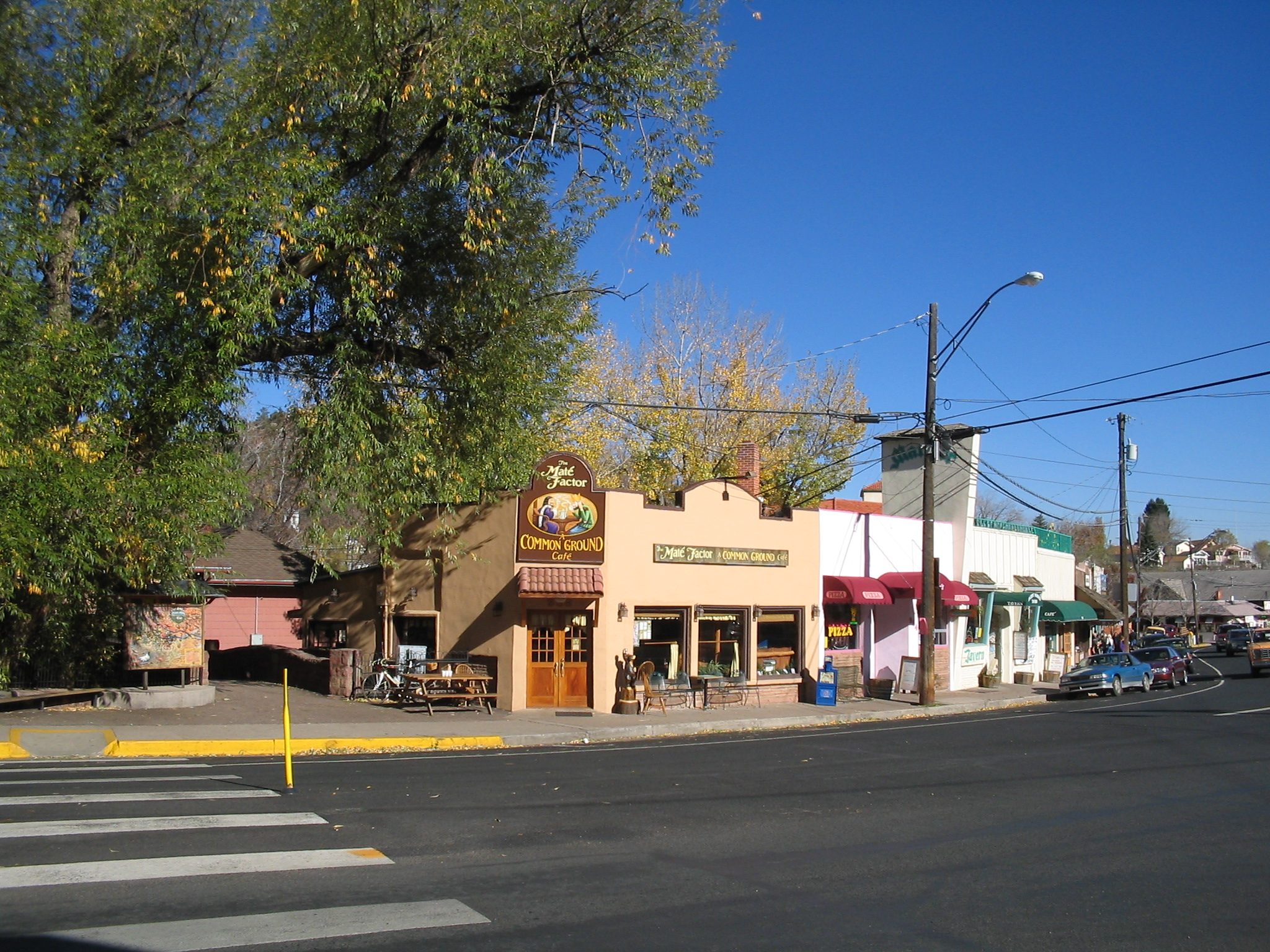 A street scene in Manitou Springs, Colorado. David Benbennick took this photo on October 30, 2004 at 2:57 PM (local time). I took the picture because I was so surprised to see a Maté Factor in Manitou Springs. The Maté Factor is a coffee shop chain run by The Twelve Tribes, a religious group that nevertheless makes good maté. (I've eaten at the franchise in Ithaca, New York.)